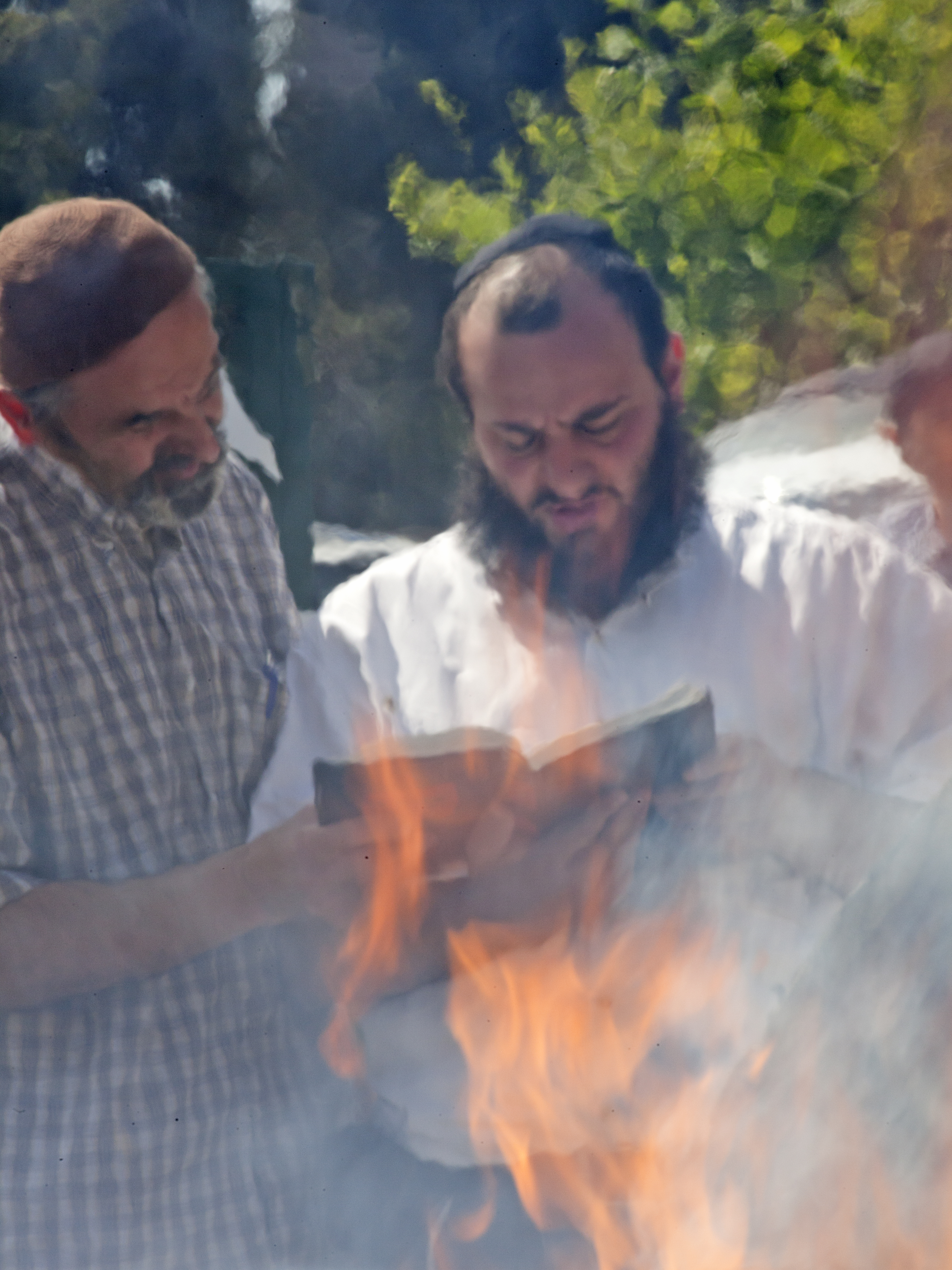 The Burning of the Chametz (26) Chametz Burning Jerusalem